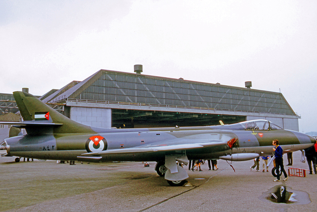 Hawker Hunter F.73B 842 Royal Jordanian Air Force at Chester UK before delivery in 1971